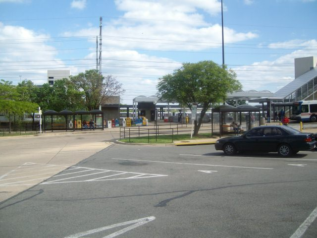 The east entrance to the New Carrollton metro station which serves the Orange Line, MARC and Amtrak trains